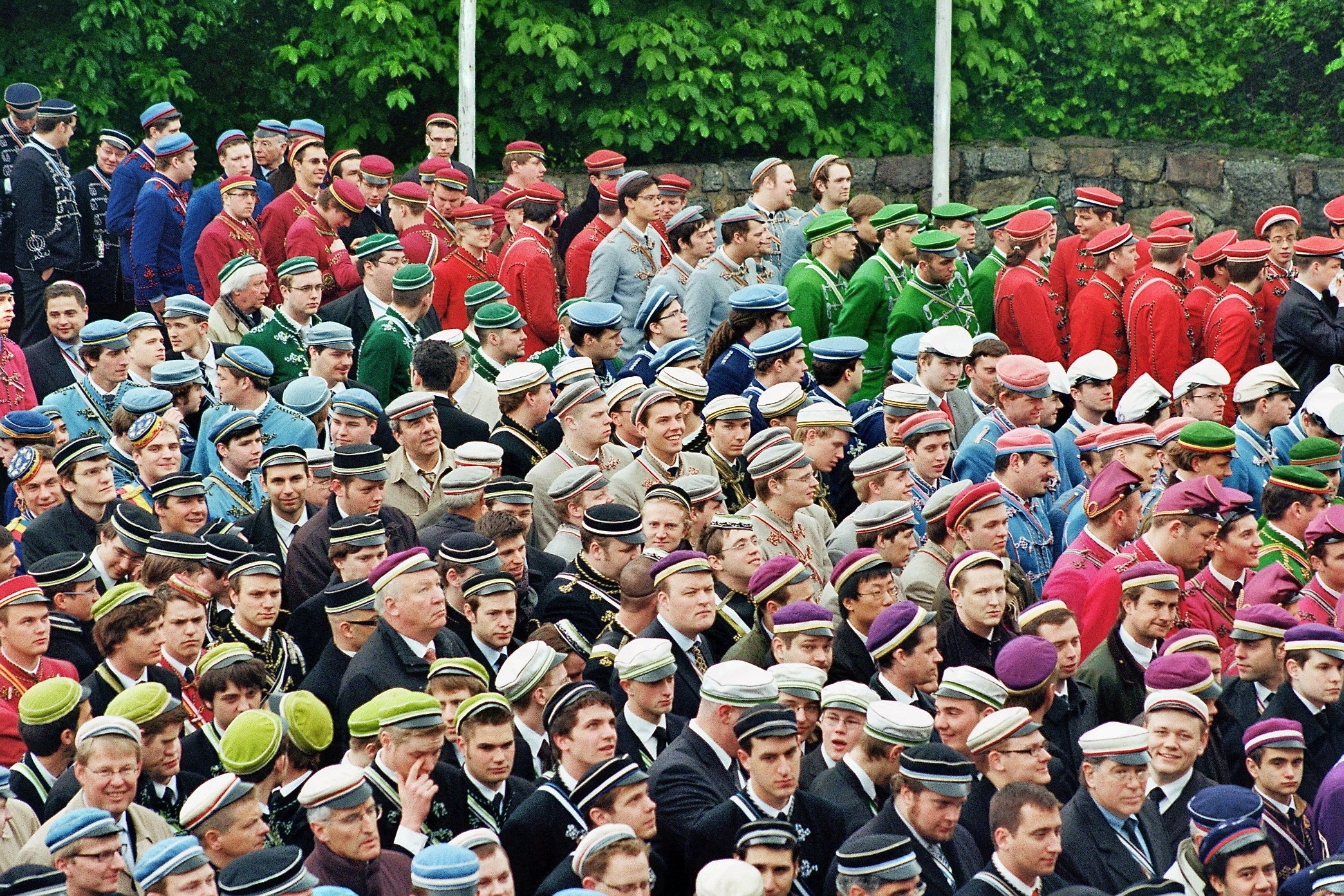 Corps students of Weinheimer Senioren-Convent (WSC) during Weinheimtagung 2010, Corpsstudenten des Weinheimer Senioren-Convents (WSC) während der Weinheim-Tagung 2010